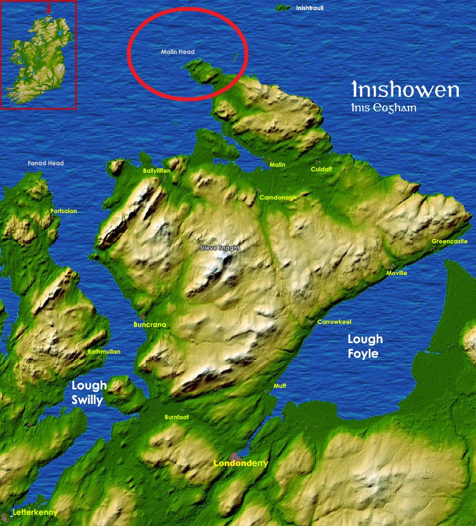 Map showing the location of Malin Head, County Donegal